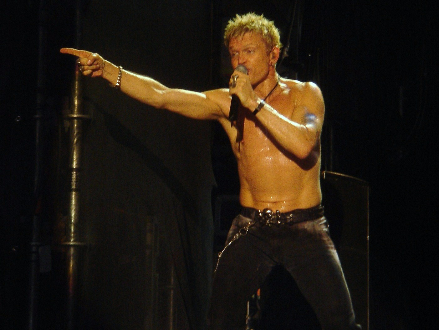 Billy Idol at Gurtenfestival in Bern (Switzerland).